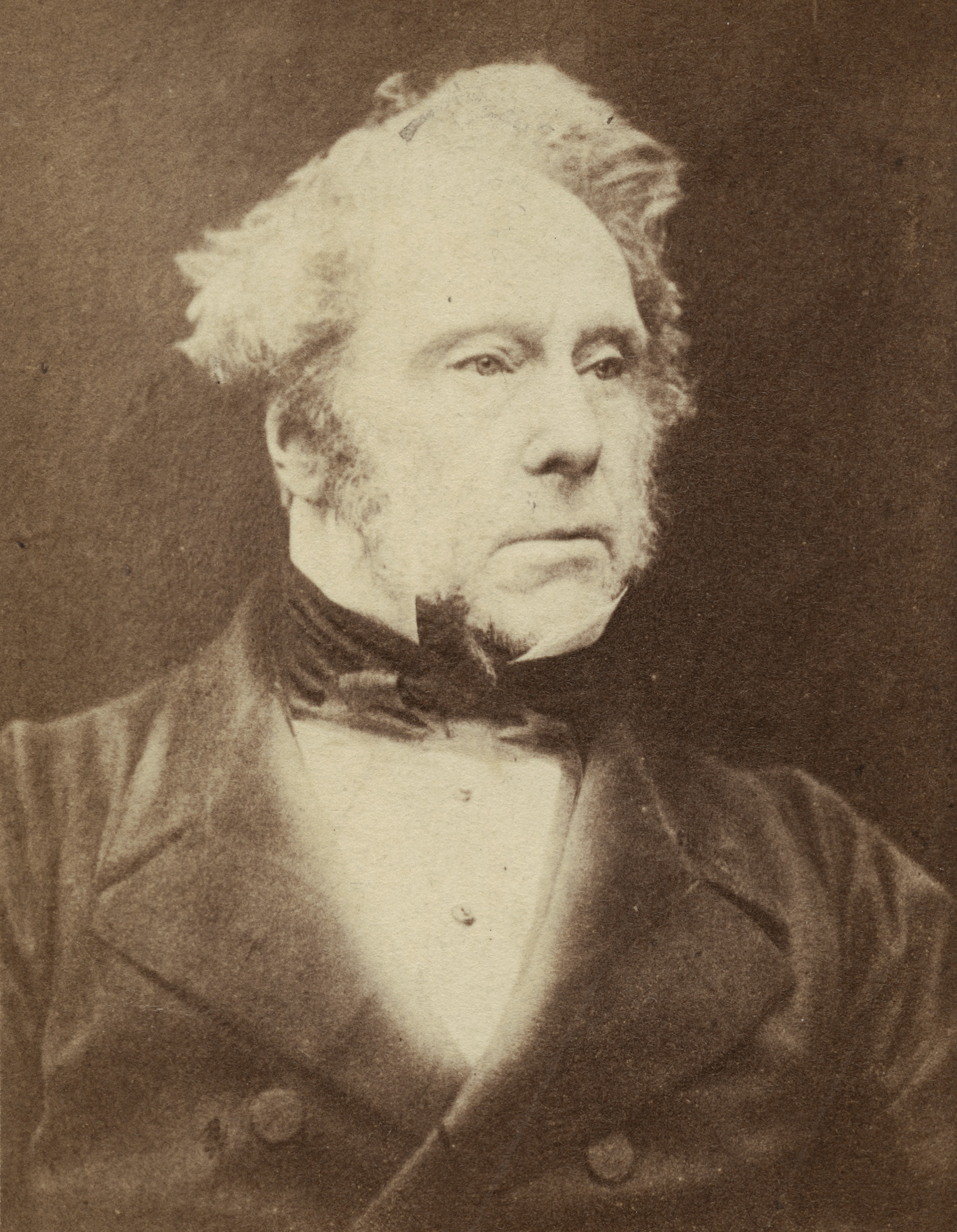 Portrait of Henry John Temple (1784–1865)